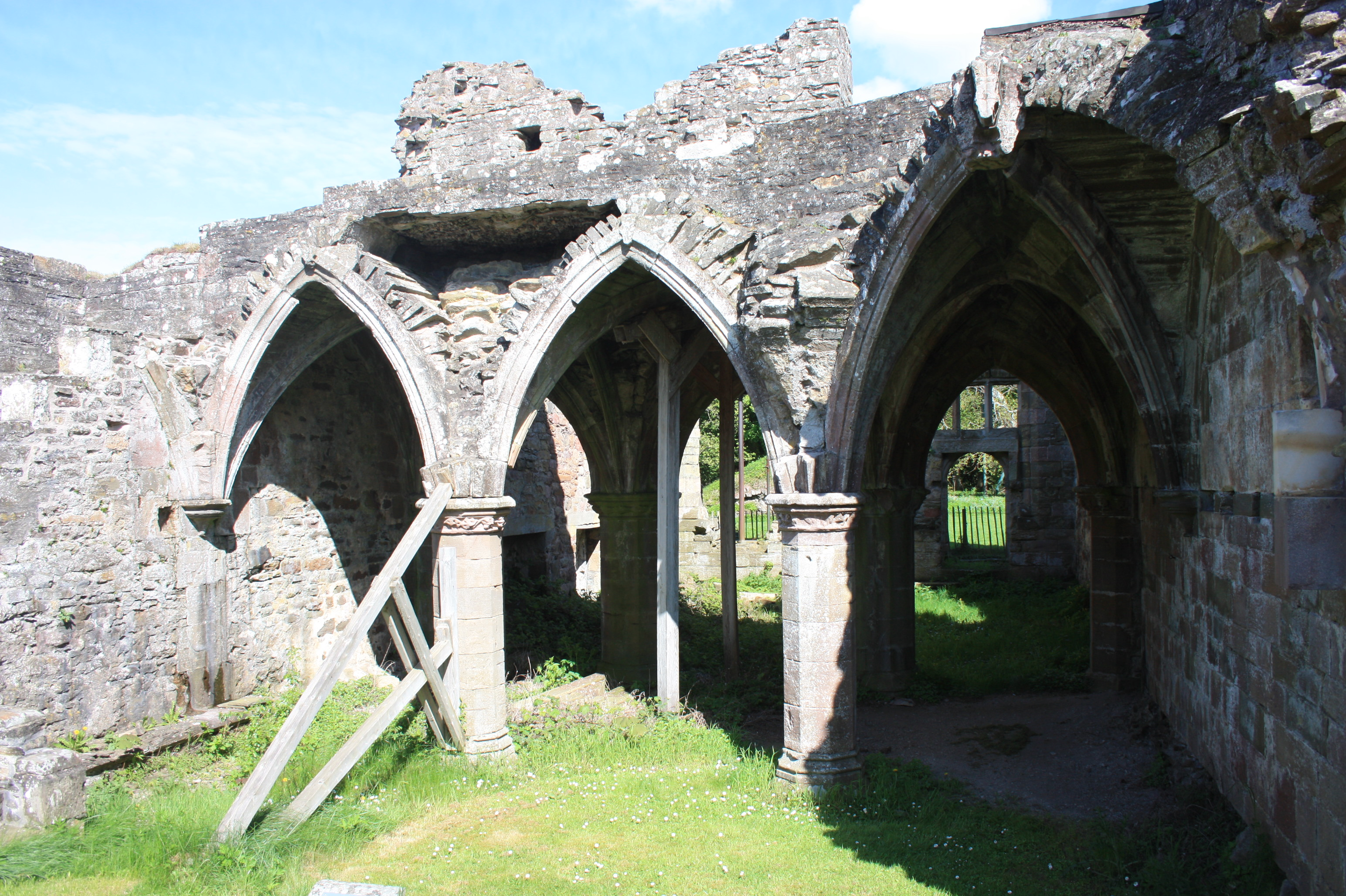 The cloisters of Balmerino Abbey